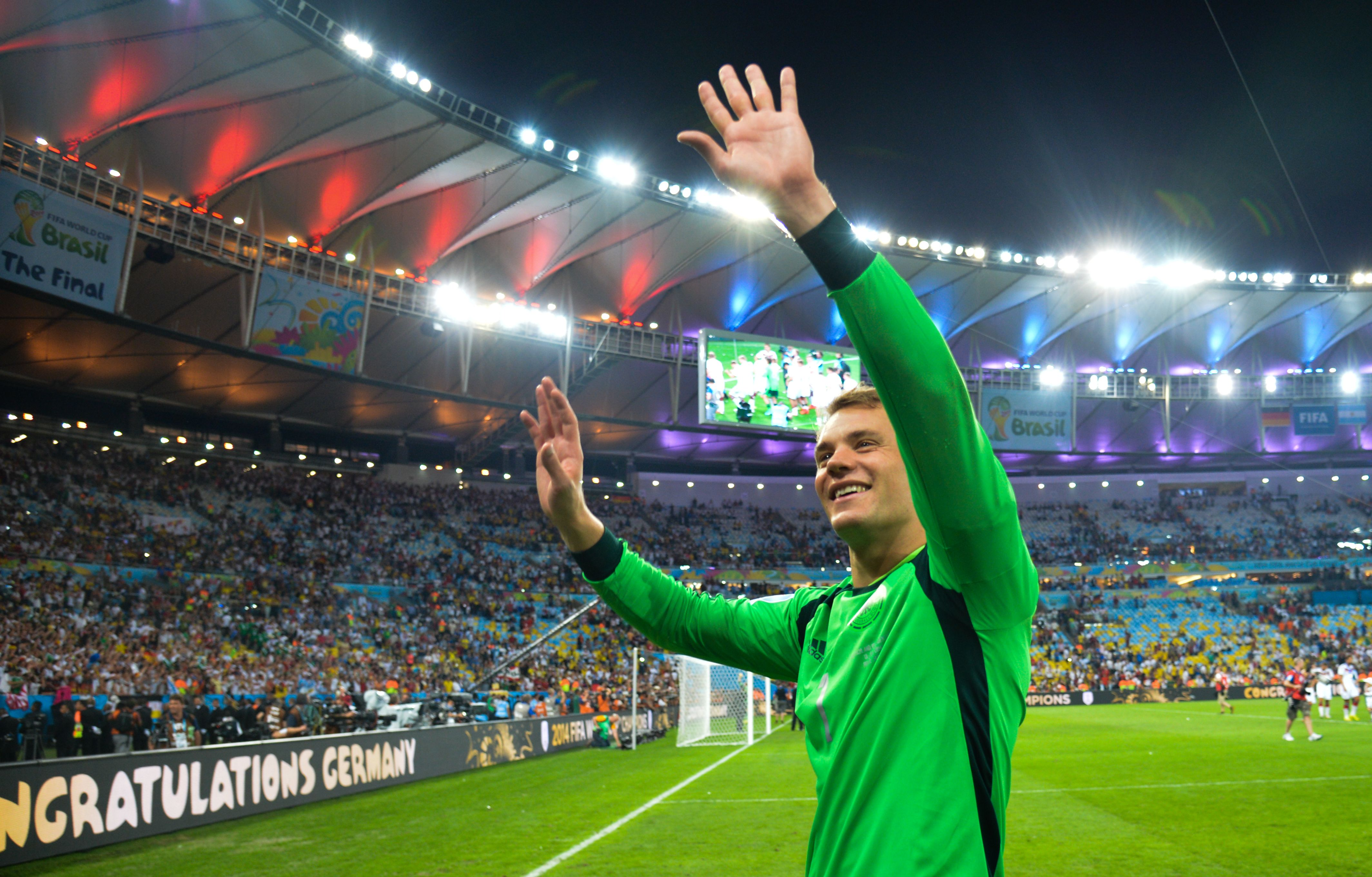 Award ceremony of the World Cup in Brazil